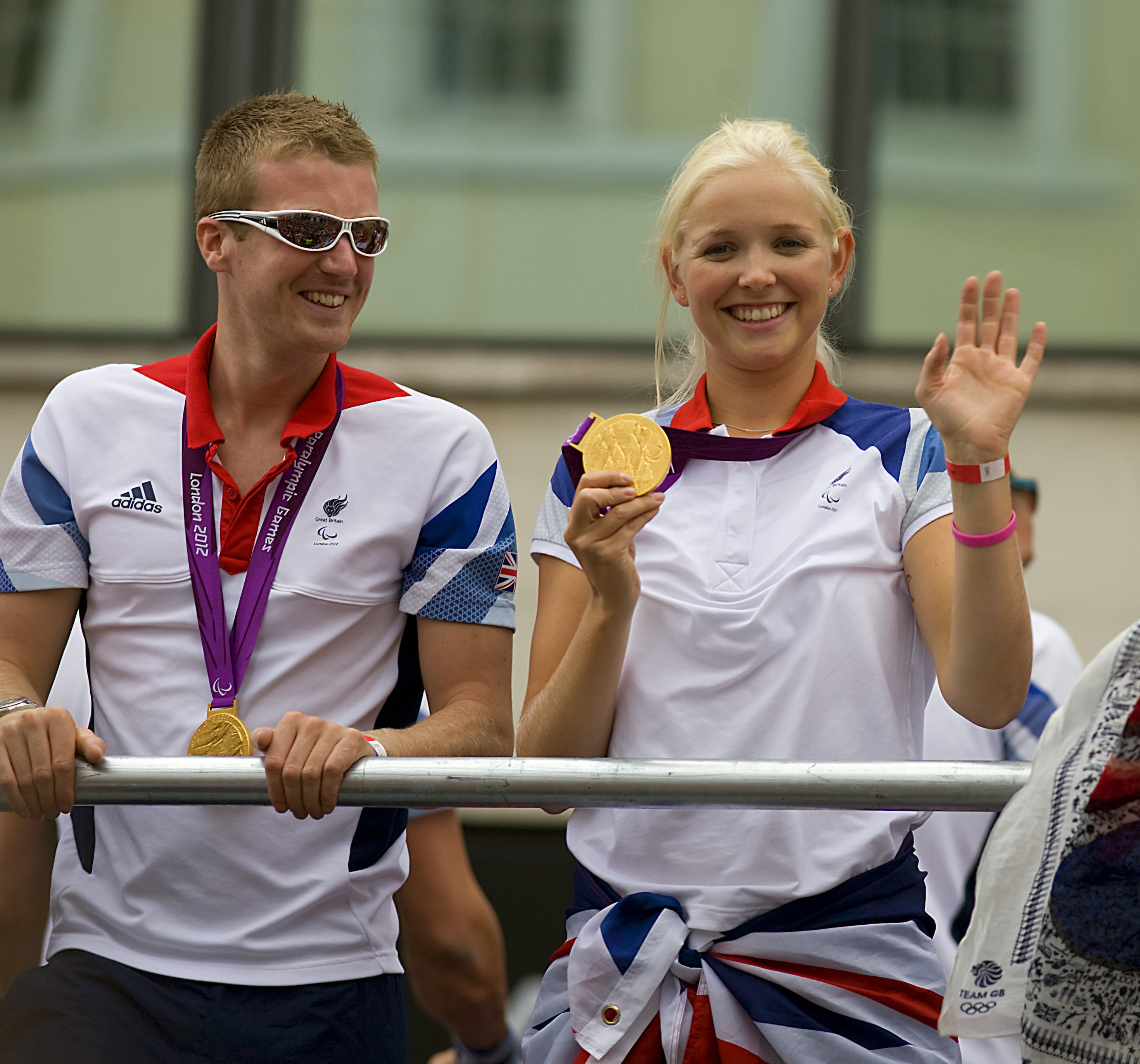 London 2012 Olympic & Paralympic Games Victory Parade, 10th September